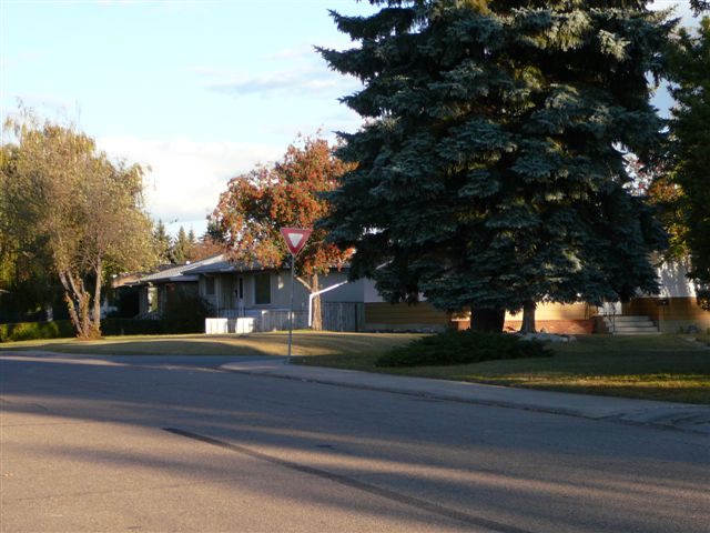 I took this picture myself on September 25, 2007